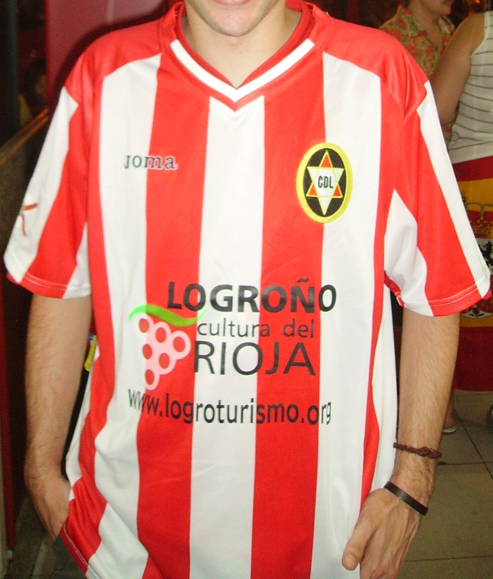 Shirt of CD Logroñés in the 2007-08 season.